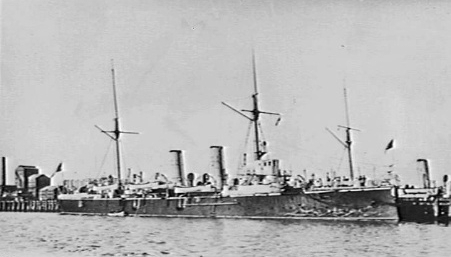 AWM caption : "PORT MELBOURNE, VIC. 1901-05. STARBOARD SIDE VIEW OF THE THIRD CLASS PROTECTED CRUISER HMS MILDURA (EX-HMS PELORUS), OF THE AUSTRALIAN AUXILIARY SQUADRON OF THE ROYAL NAVY, ON THE OCCASION OF THE ROYAL VISIT OF THE DUKE AND DUCHESS OF YORK TO INAUGURATE THE COMMONWEALTH PARLIAMENT. THE MILDURA WEARS THE BLACK, WHITE AND BUFF COLOUR SCHEME OF THE LATE NINETEENTH CENTURY, SOON TO BE REPLACED BY ALL-OVER GREY. IN THE BACKGROUND IS THE CRUISER HMS JUNO, PART OF THE ESCORT OF THE ROYAL YACHT OPHIR."